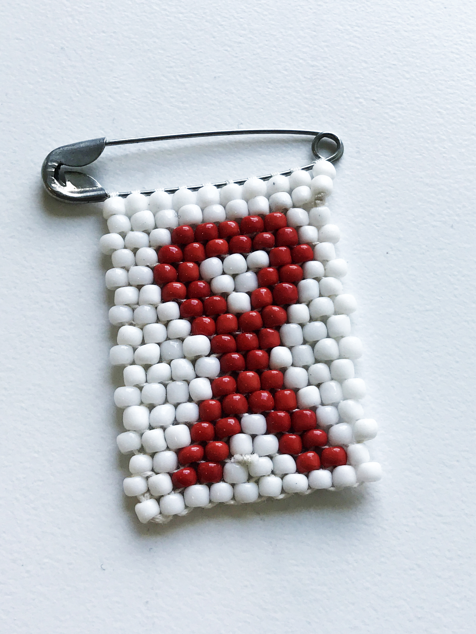 An AIDS awareness pin. Credit: NIAID